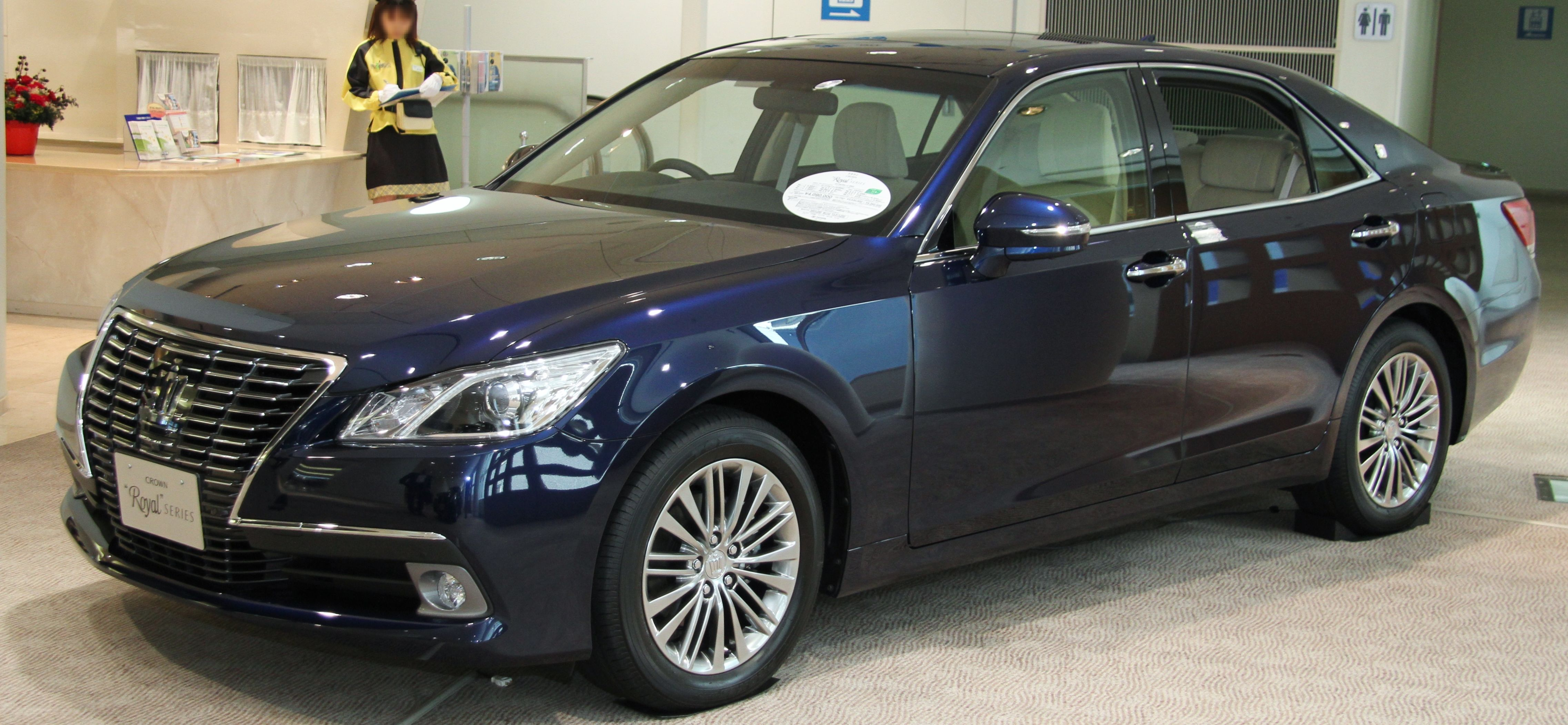 Toyota Crown